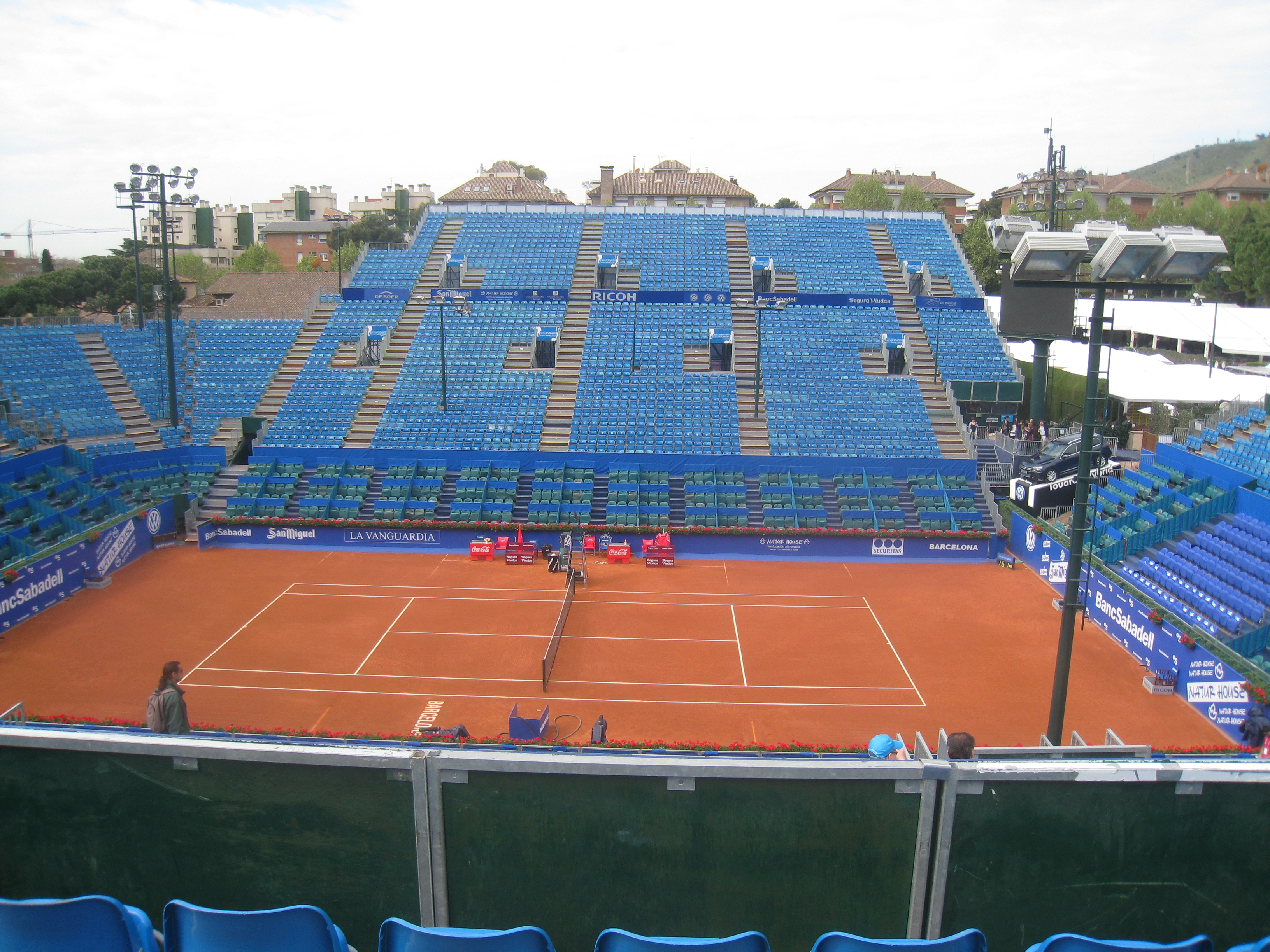 2010 Barcelona Open - Empty court